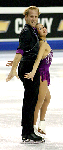 John Baldwin (left) and his pair partner Rena Inoue compete their short program at the 2004 Four Continents Championships in Hamilton, Ontario, Canada. author: vesperholly Category:Figure skating